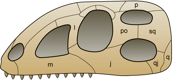 “triapsid” skull = “standard” archosaur skull